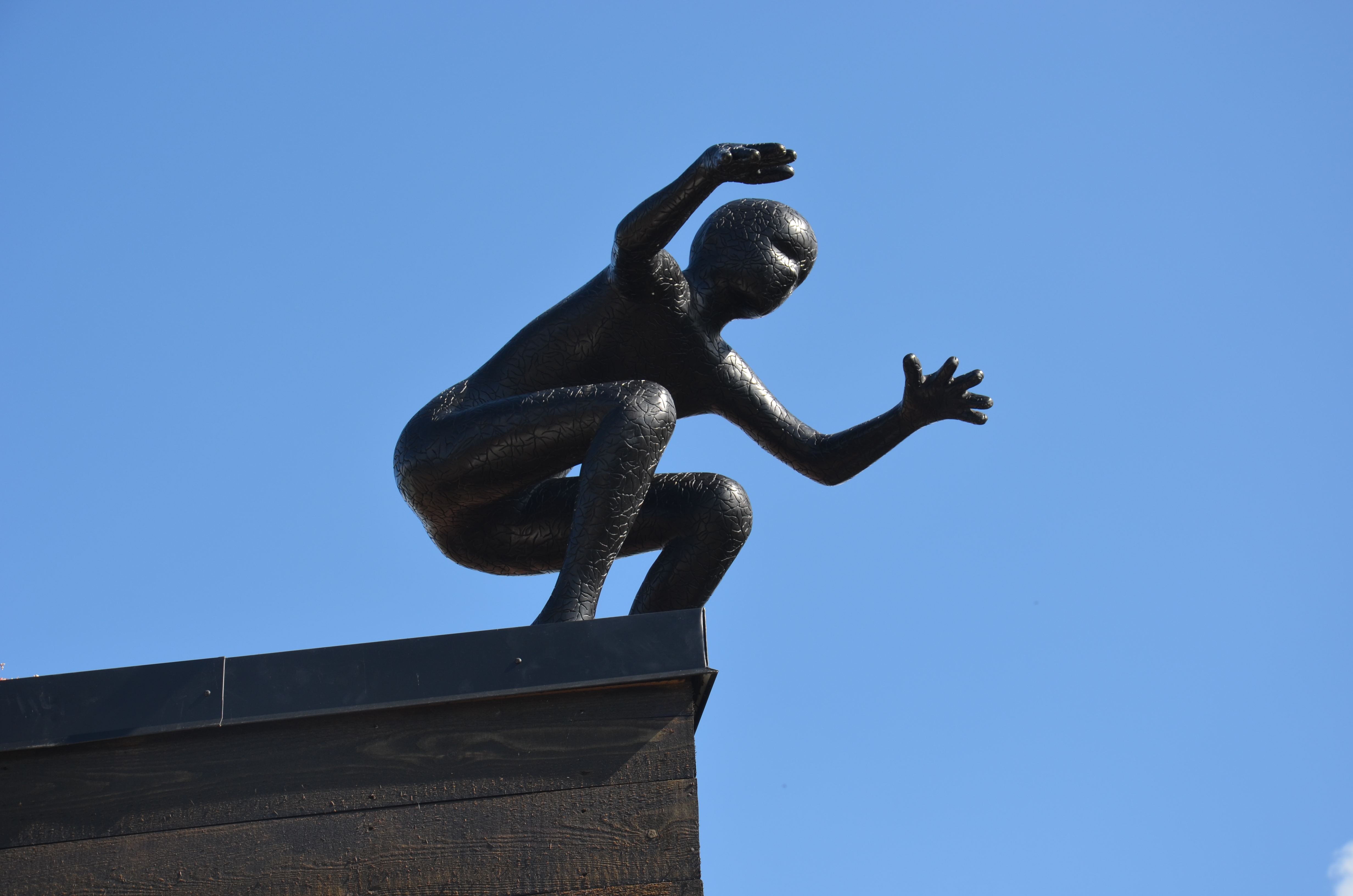 Maria Miesenbergers figur på tak, svartpatinerad brons, 2012, ovanpå Konsthallen Artipelag